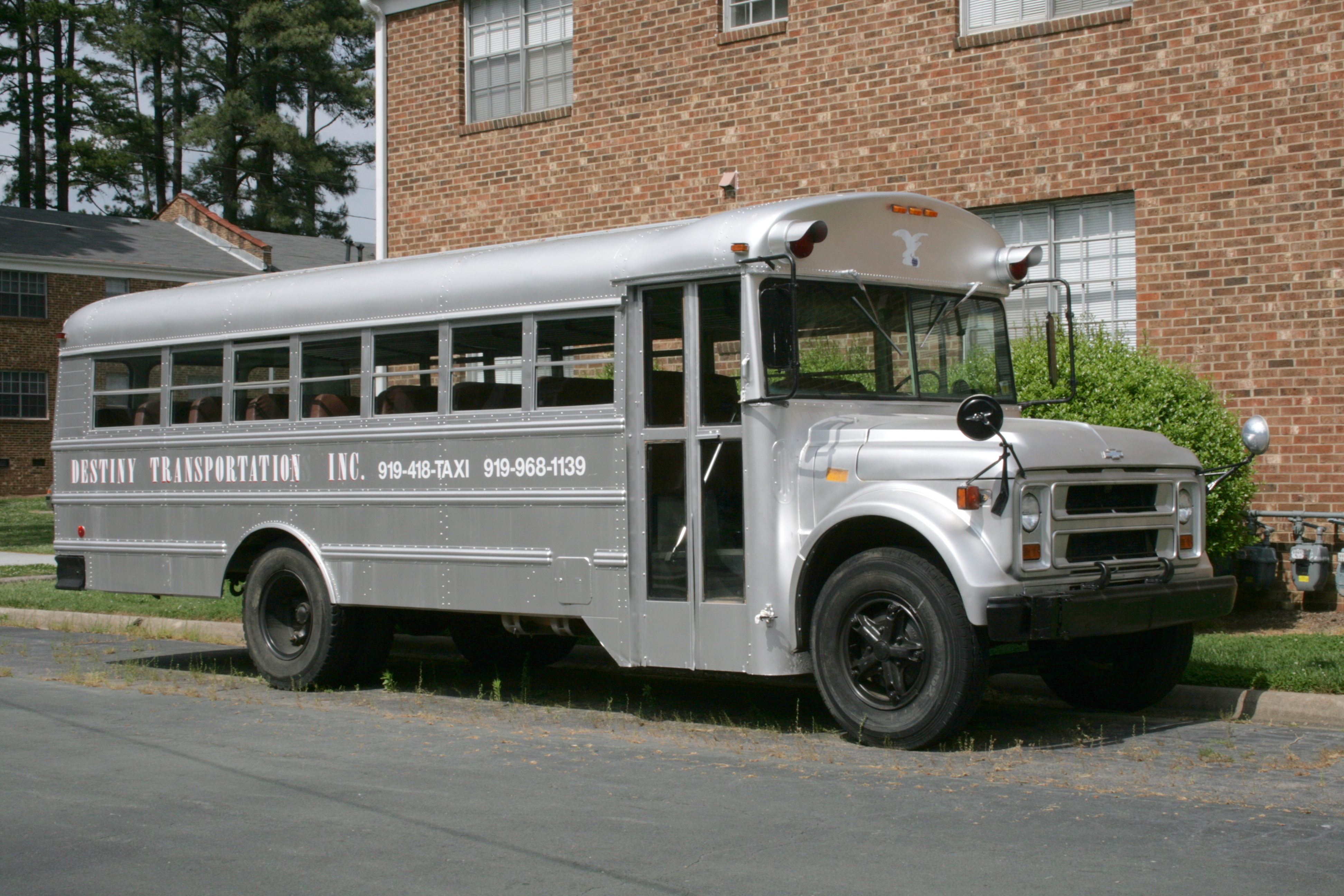 A Destiny Transportation Inc. taxi fashioned out of a school bus parked at Colony Apartments in Chapel Hill, North Carolina.